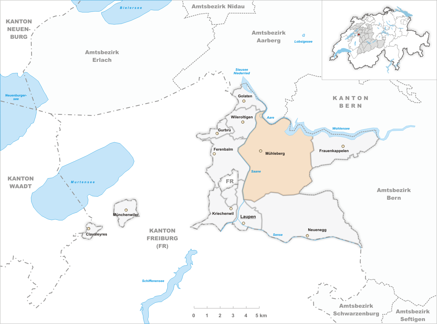 Municipality Mühleberg